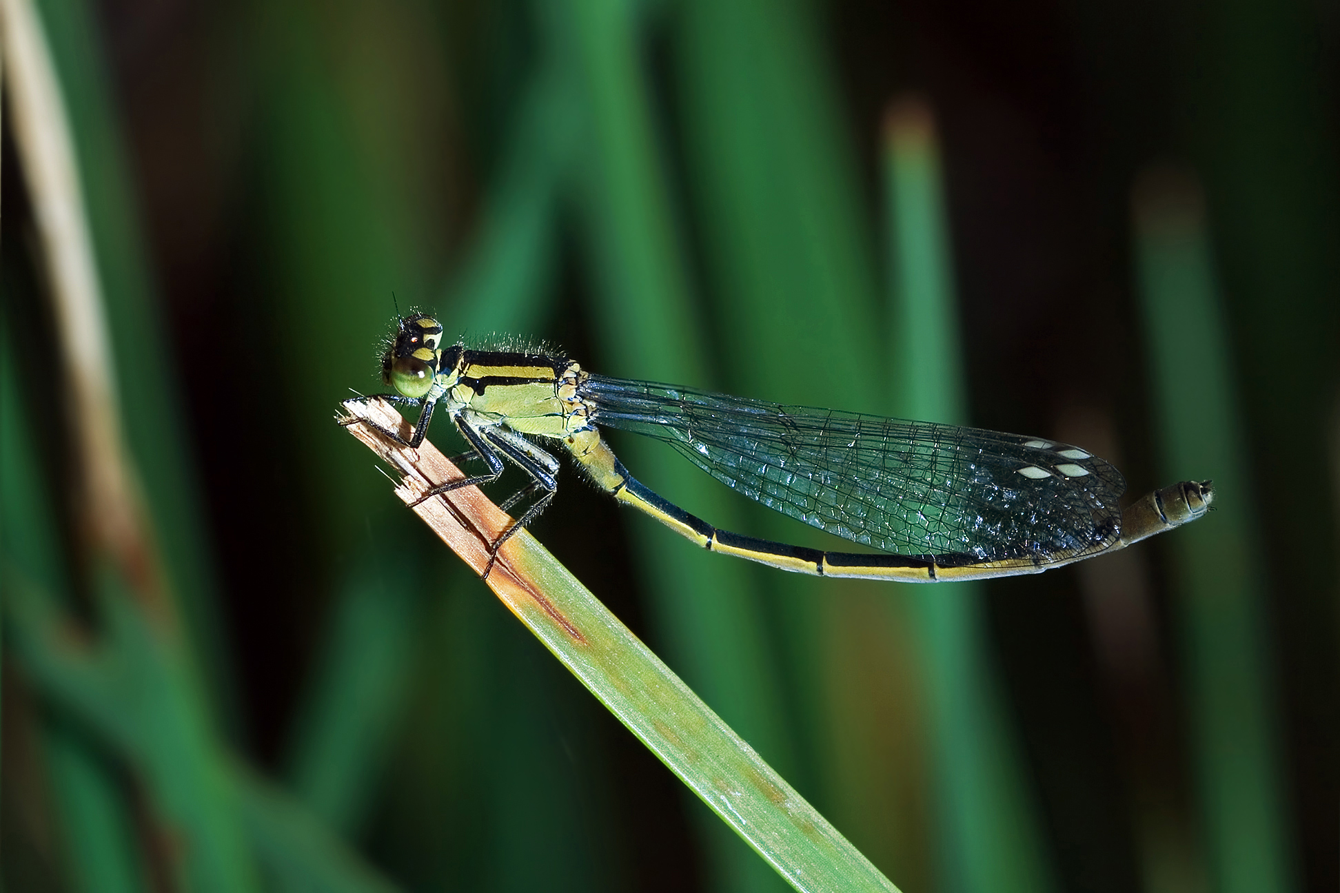 Eastern billabong fly (Austroagrion watsoni) (female), taken at Tea Tree, Tasmania, Australia Camera data Camera Canon EOS 400D Lens Canon EF 70-200mm f4L w/ 36mm + 24mm + 12mm extension tubes Flash Flash left Focal length 154 mm Aperture f/11 Exposure time 1/200 s Sensivity ISO 100